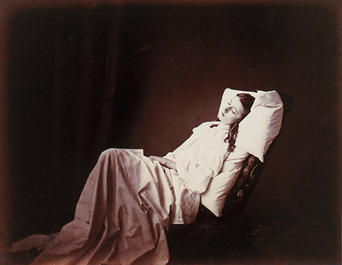 She never told her love